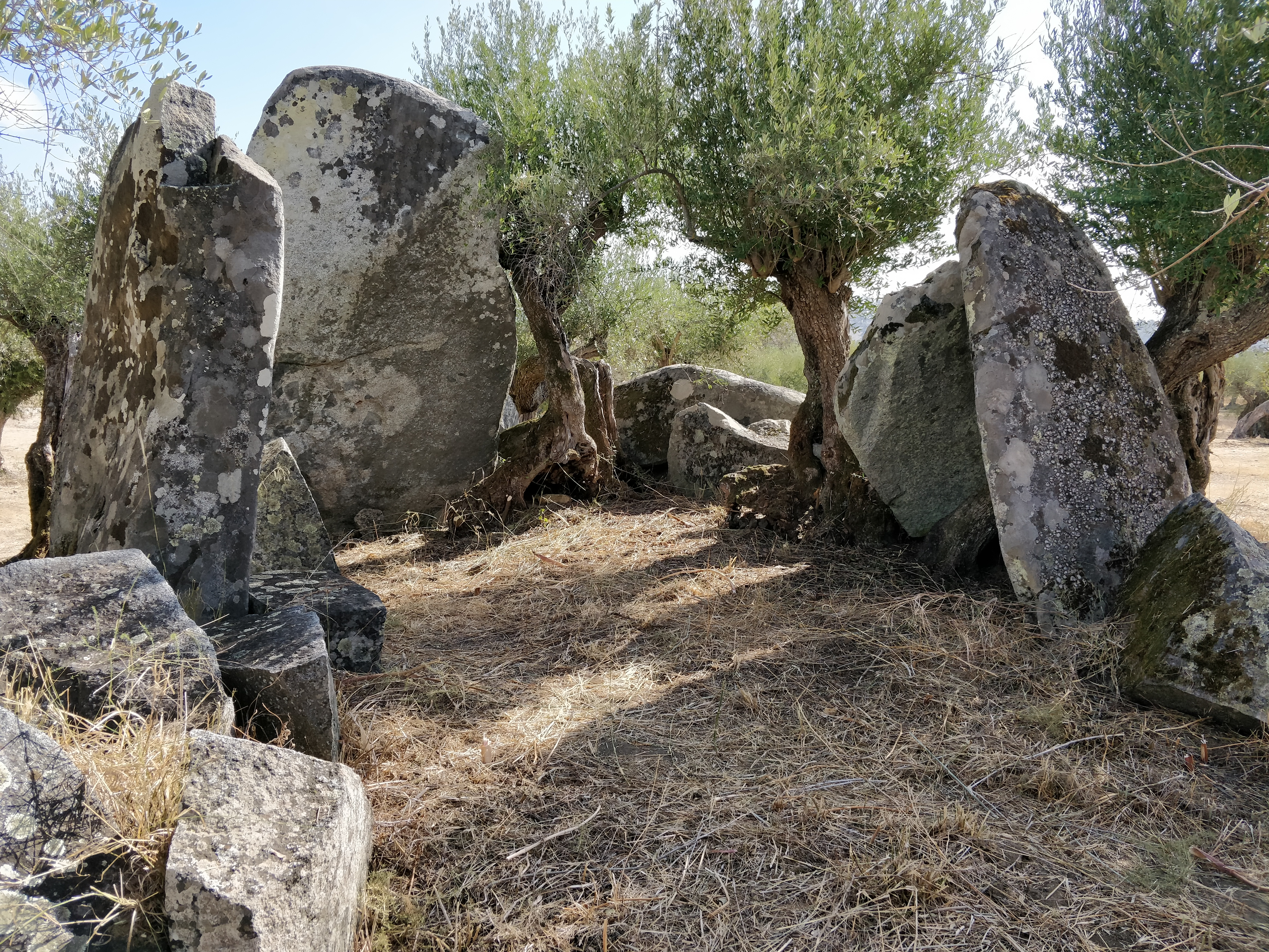 Anta 1 of the two Antas do Olival da Pêga near Monsaraz in the Evora District of the Alentejo region of Portugal